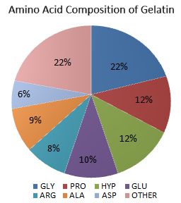 Pie chart displaying the Amino Acid composition in Gelatin.